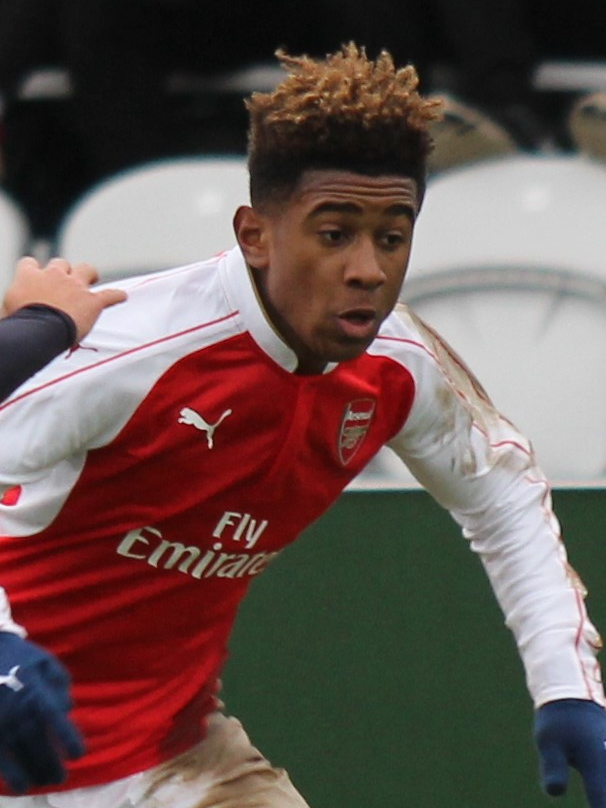 Reiss Nelson of Arsenal U19s on the ball during the game against Dinamo Zagreb.